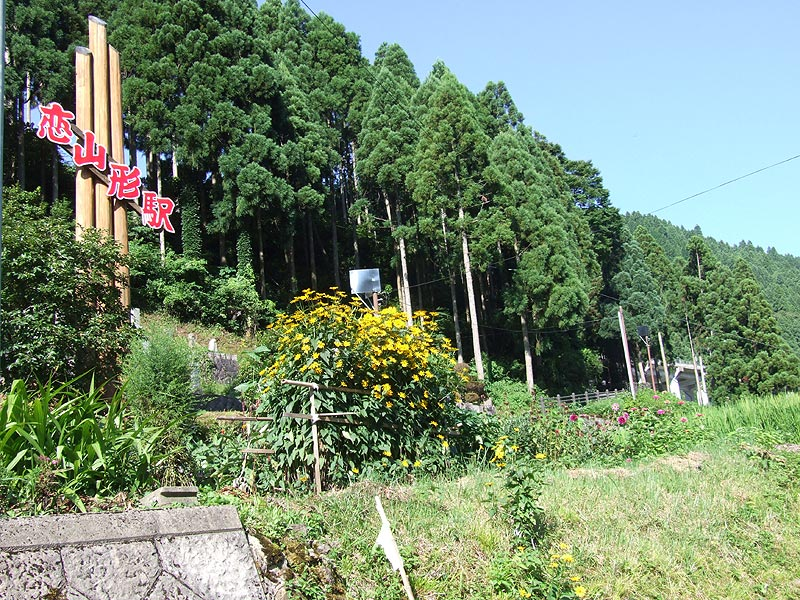 Chizu Express Chizu Line Koiyamagata Station